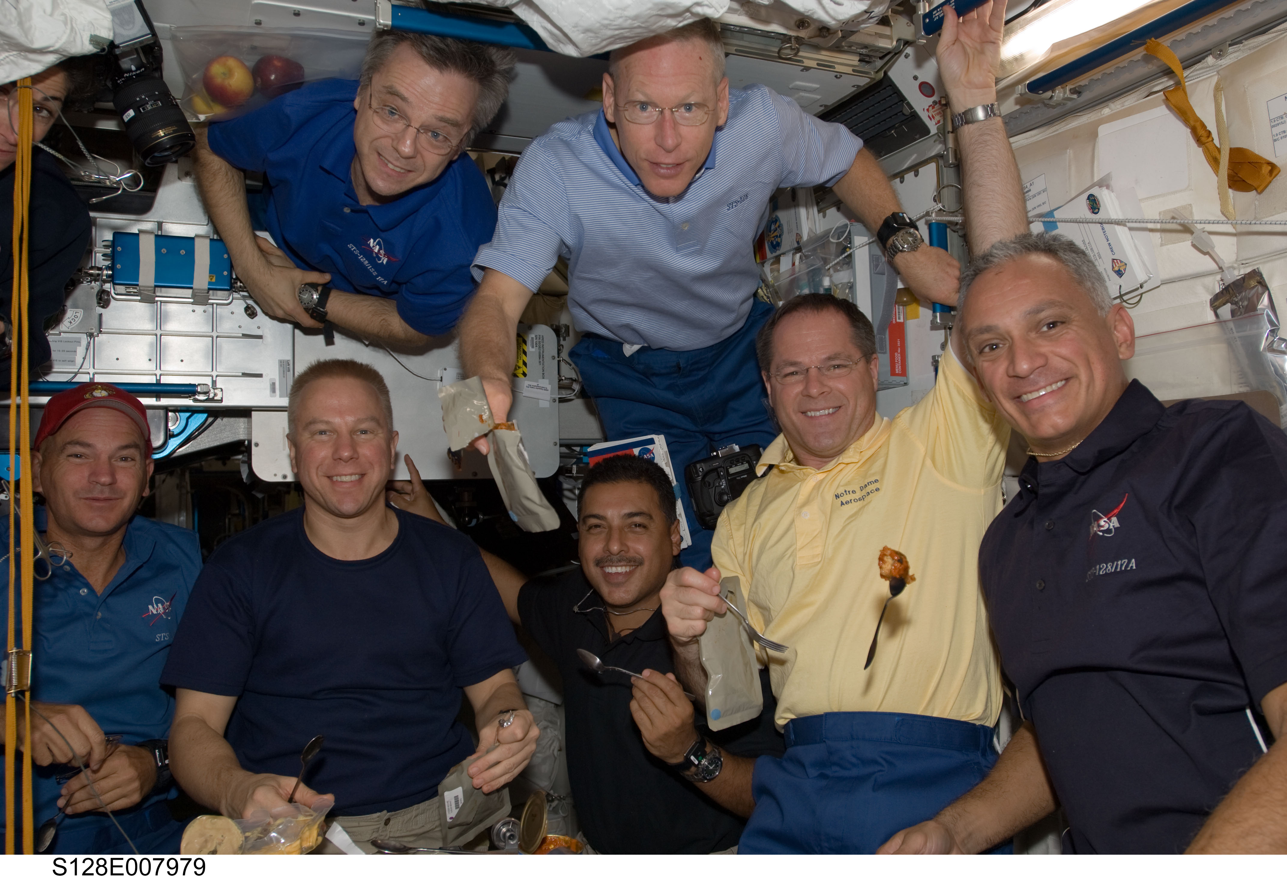 The Space Shuttle crew of STS-128 inside Node 1